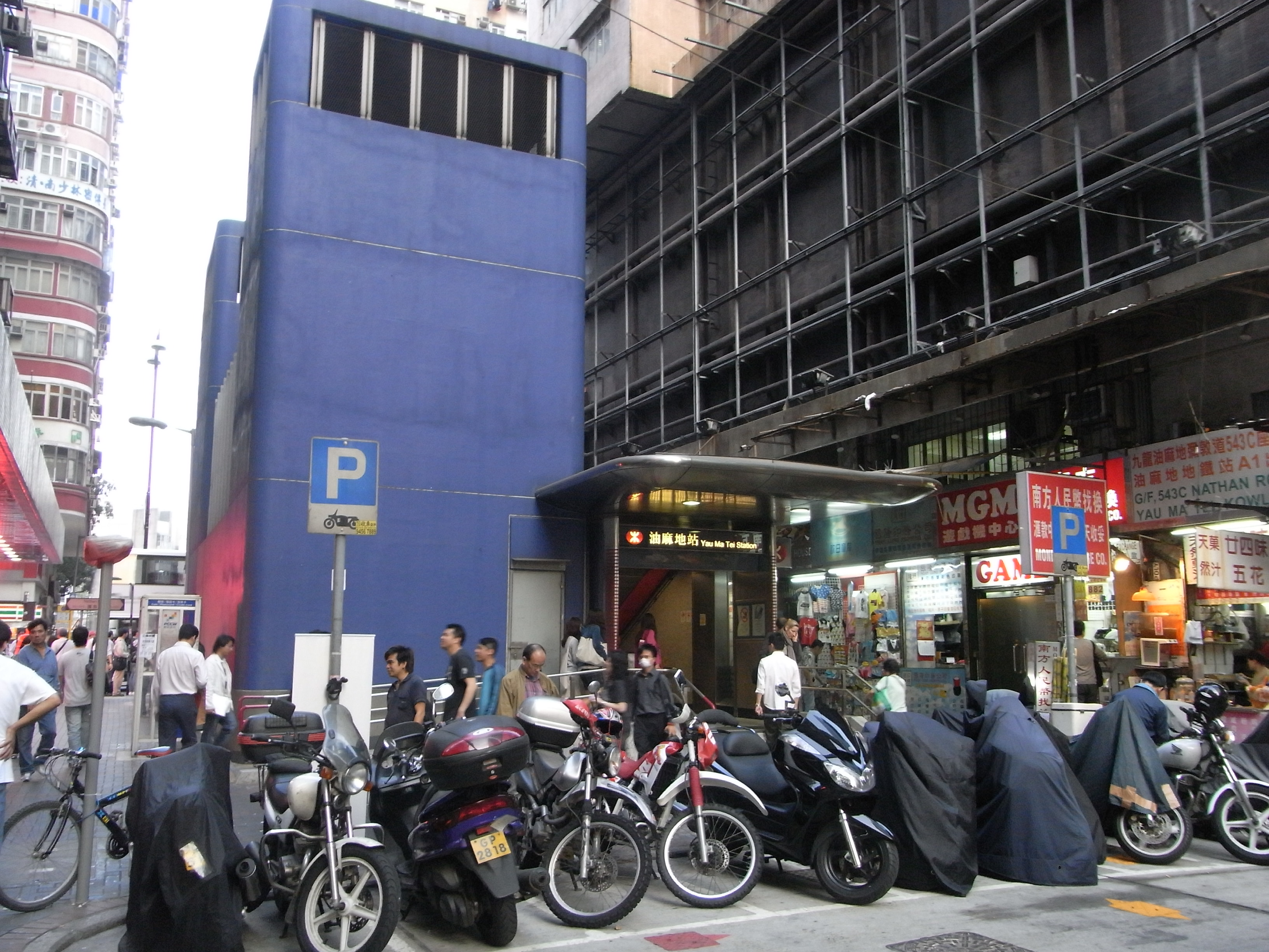 油麻地